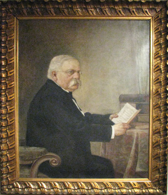 Mayor of Zagreb - Janko Kamauf